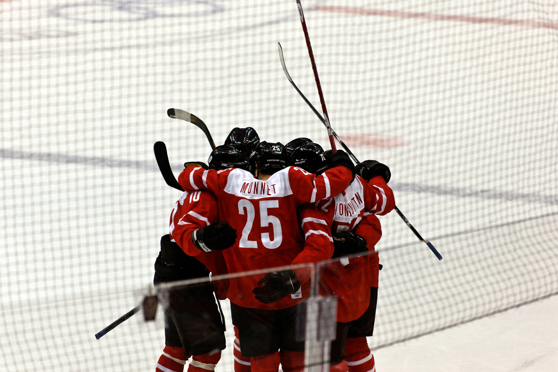 Switzerland players Thibaut Monnet (25) and Patrick von Gunten (#72, right) celebrate von Gunten's goal against Canada during the 2010 Winter Olympics